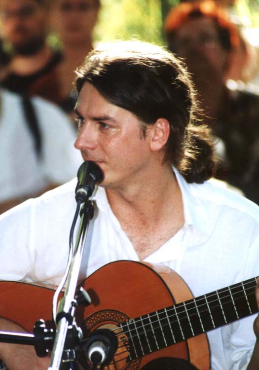 portrait of Sławomir Dolata